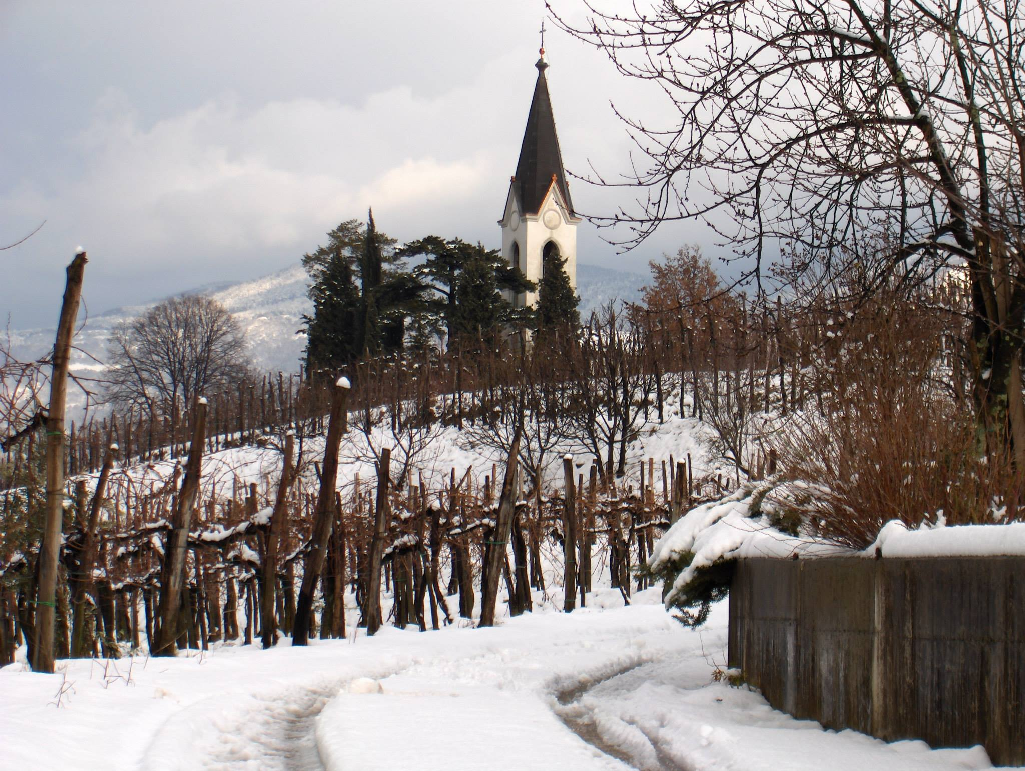 Sv. Lovrenc